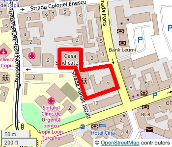 Map of heritage site "Ansamblul urban VII", Timișoara, Romania